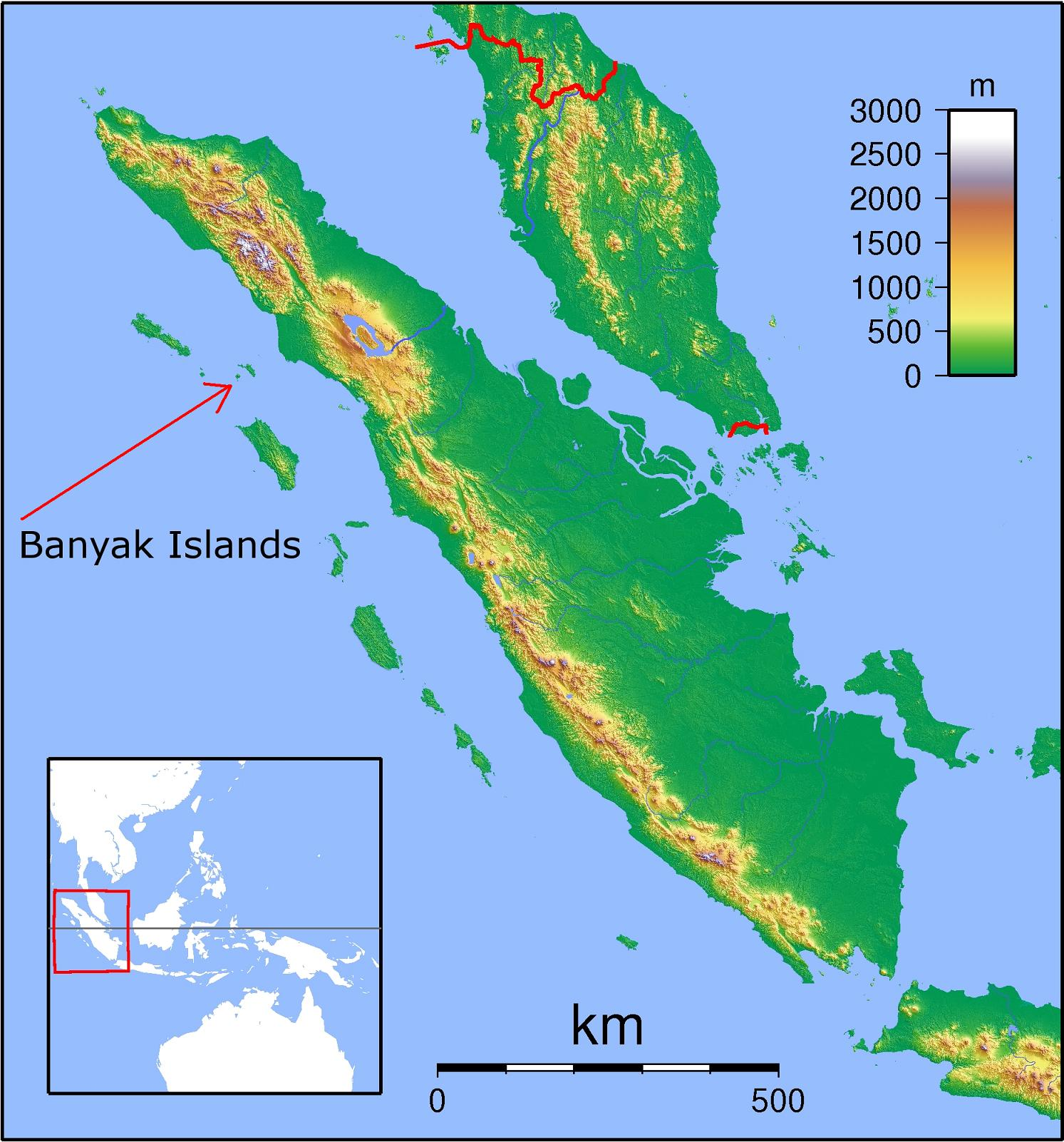 Topographic locator map of Sumatra. Created with GMT from SRTM data. For non-locator version, see Image:Sumatra Topography.png. Left:94 Bottom:-8 Rght:108 Top:7